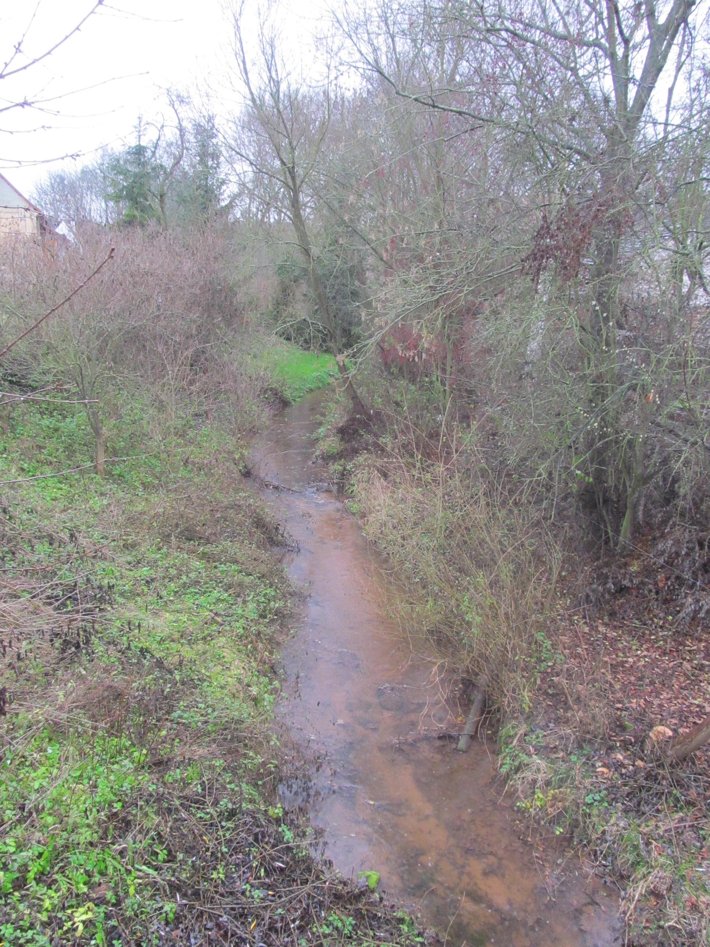 Černocký potok from the small bridge in Soběchleby